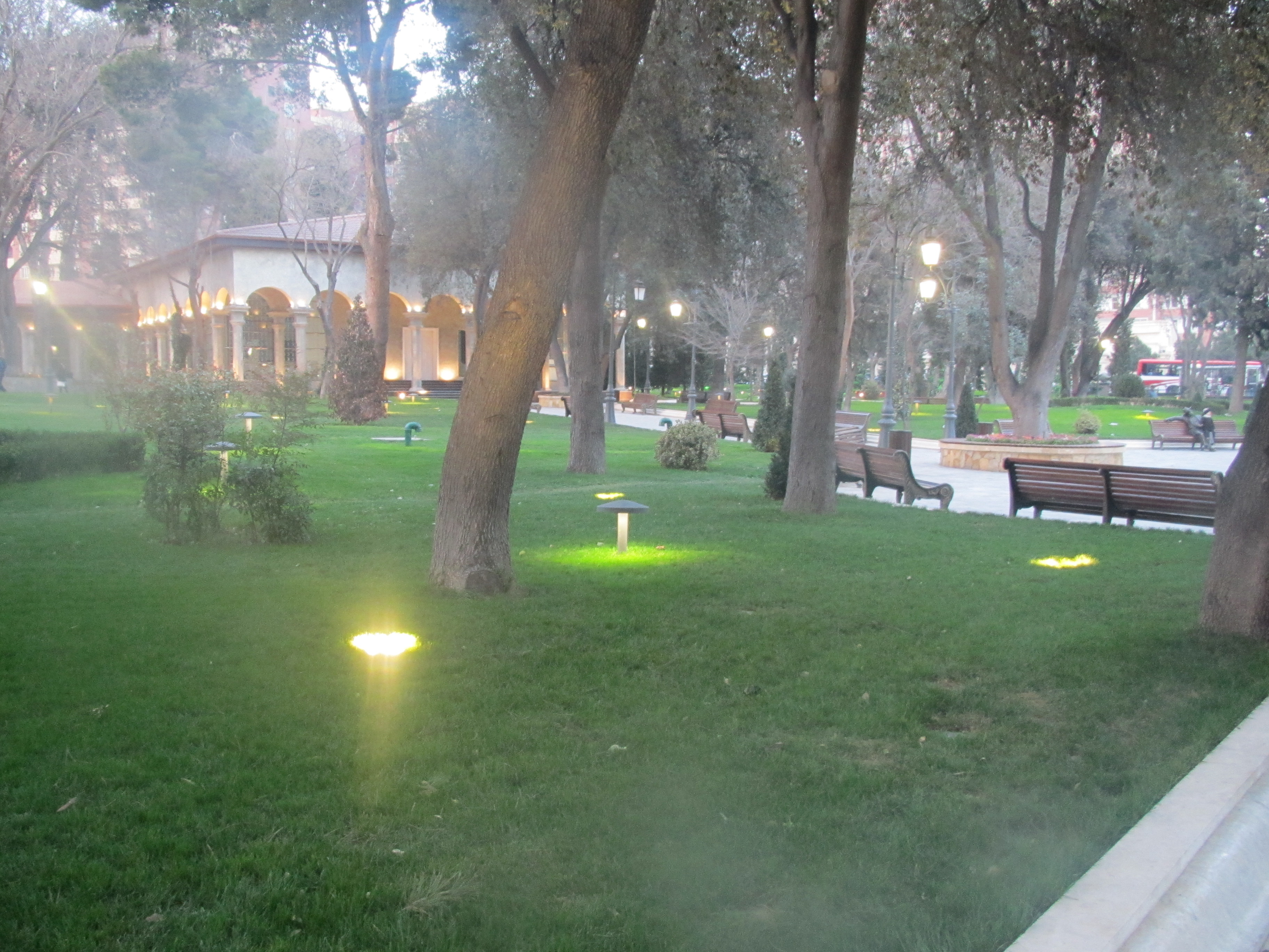 Park in Baku